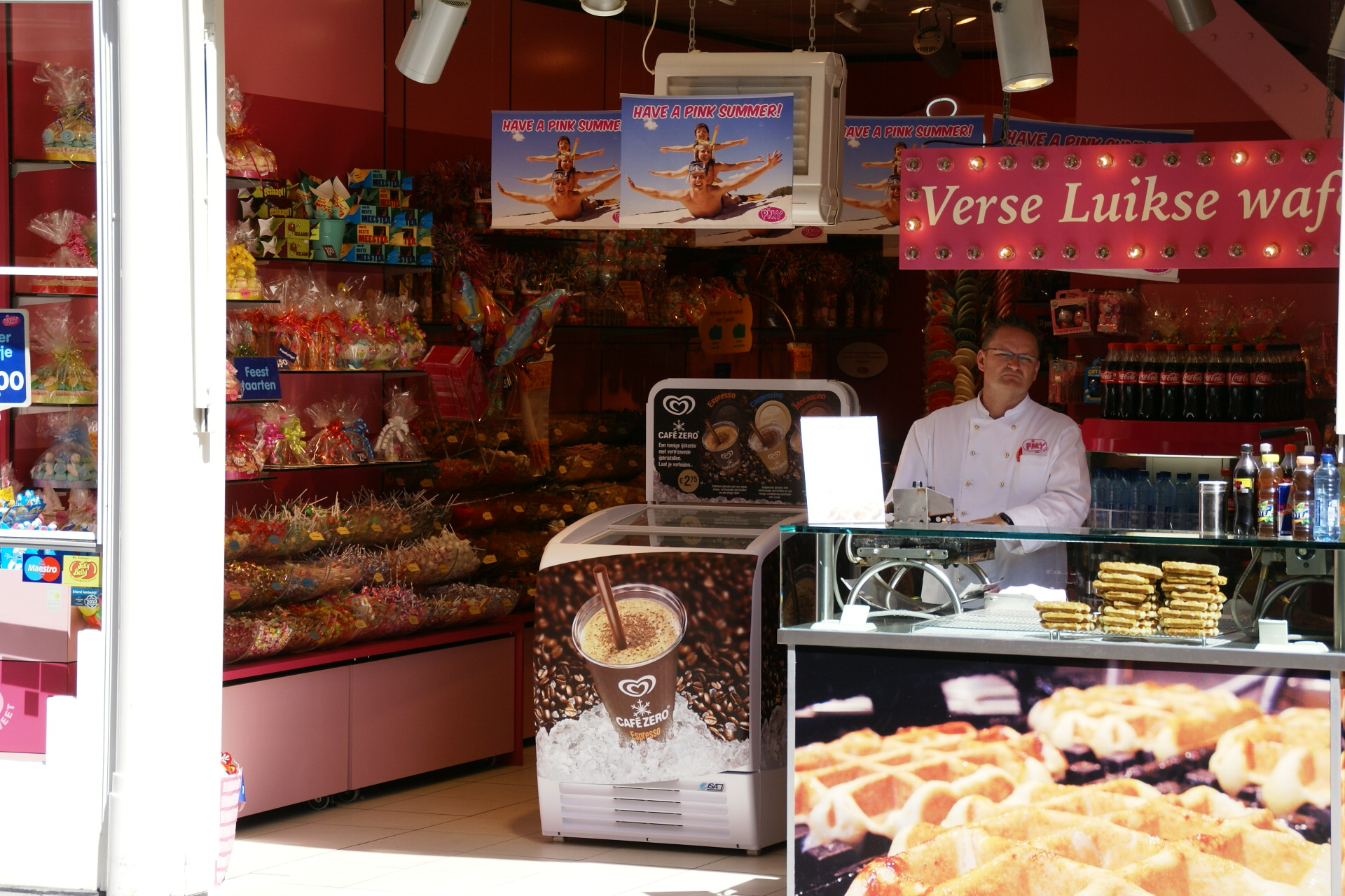 Candy store at Grote Straat in Maastricht, Netherlands